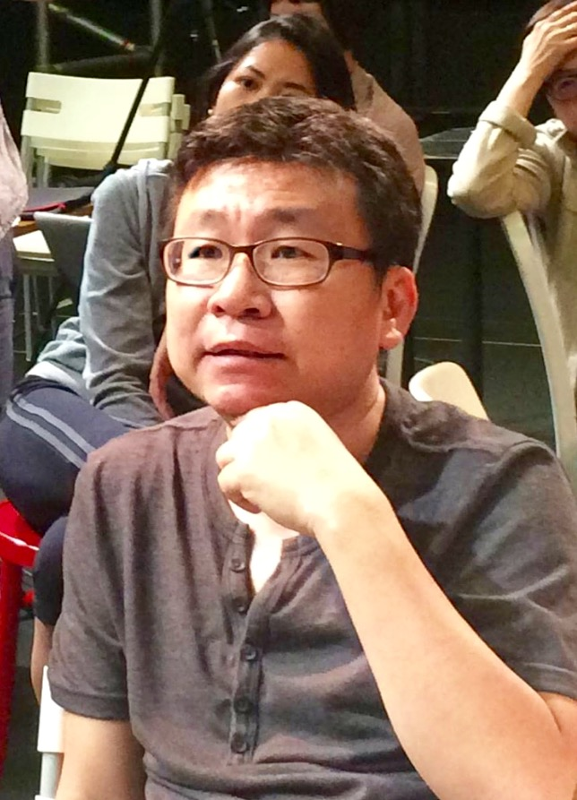 Kok in discussion